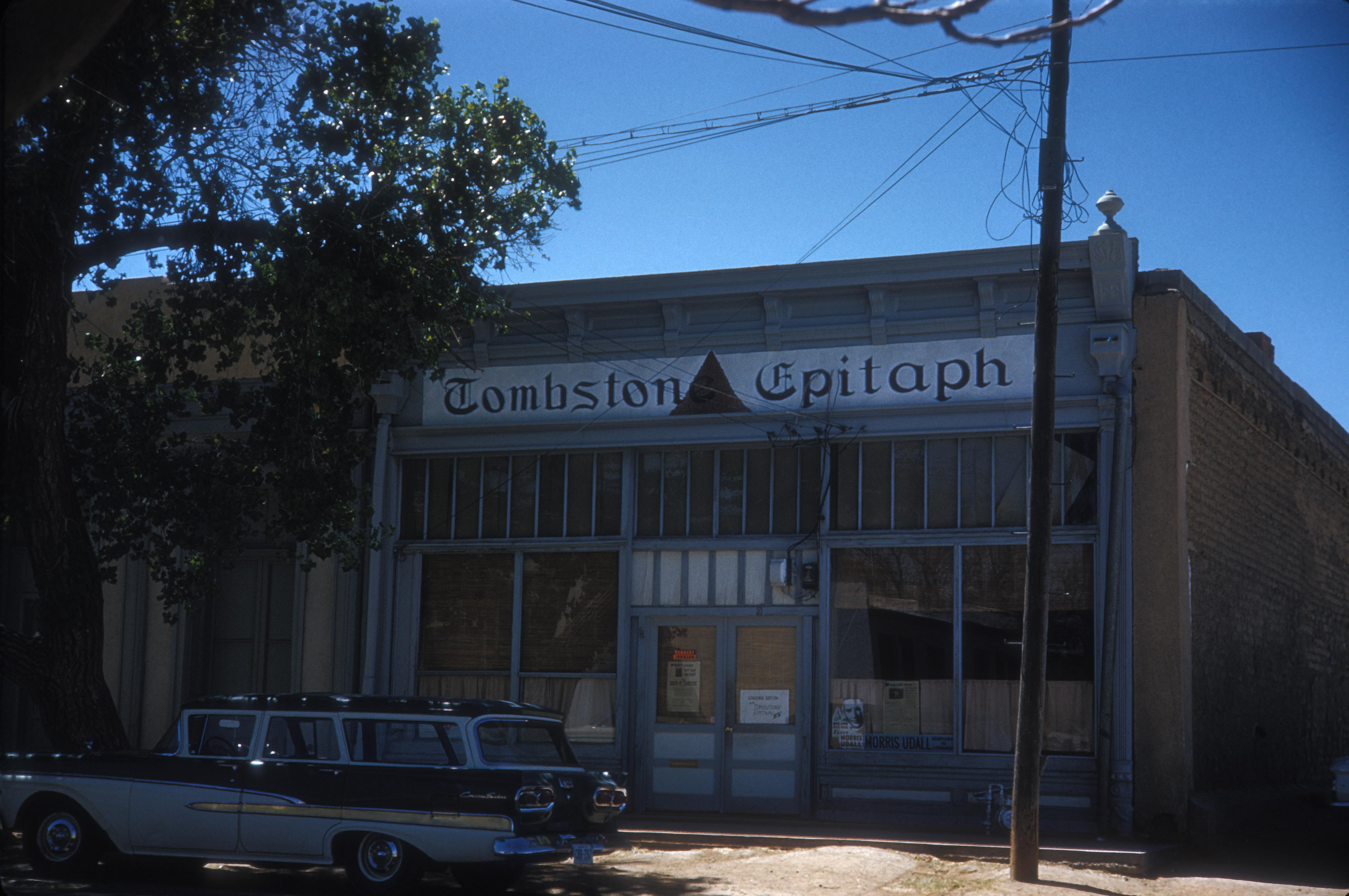 TOMBSTONE EPITAPH OFFICE - "EVERY TOMBSTONE HAS ITS EPITAPH", - SO STATED JOHN P CLUM WHEN HE STARTED WHAT IS NOW THE OLDEST CONTINUOUS NEWSPAPER IN ARIZONA